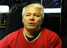 Photograph of Joshua Wurman in a Doppler on Wheels (DOW) unit.